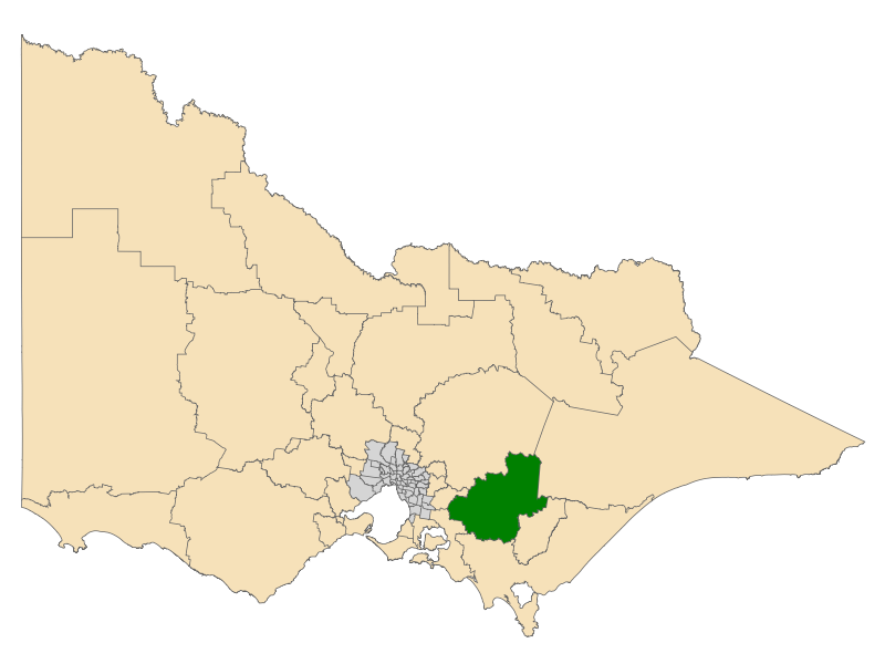 Location of the Electoral District of Narracan (dark green) in the state of Victoria, Australia. These boundaries were used for the Victorian state election on 29 November 2014.